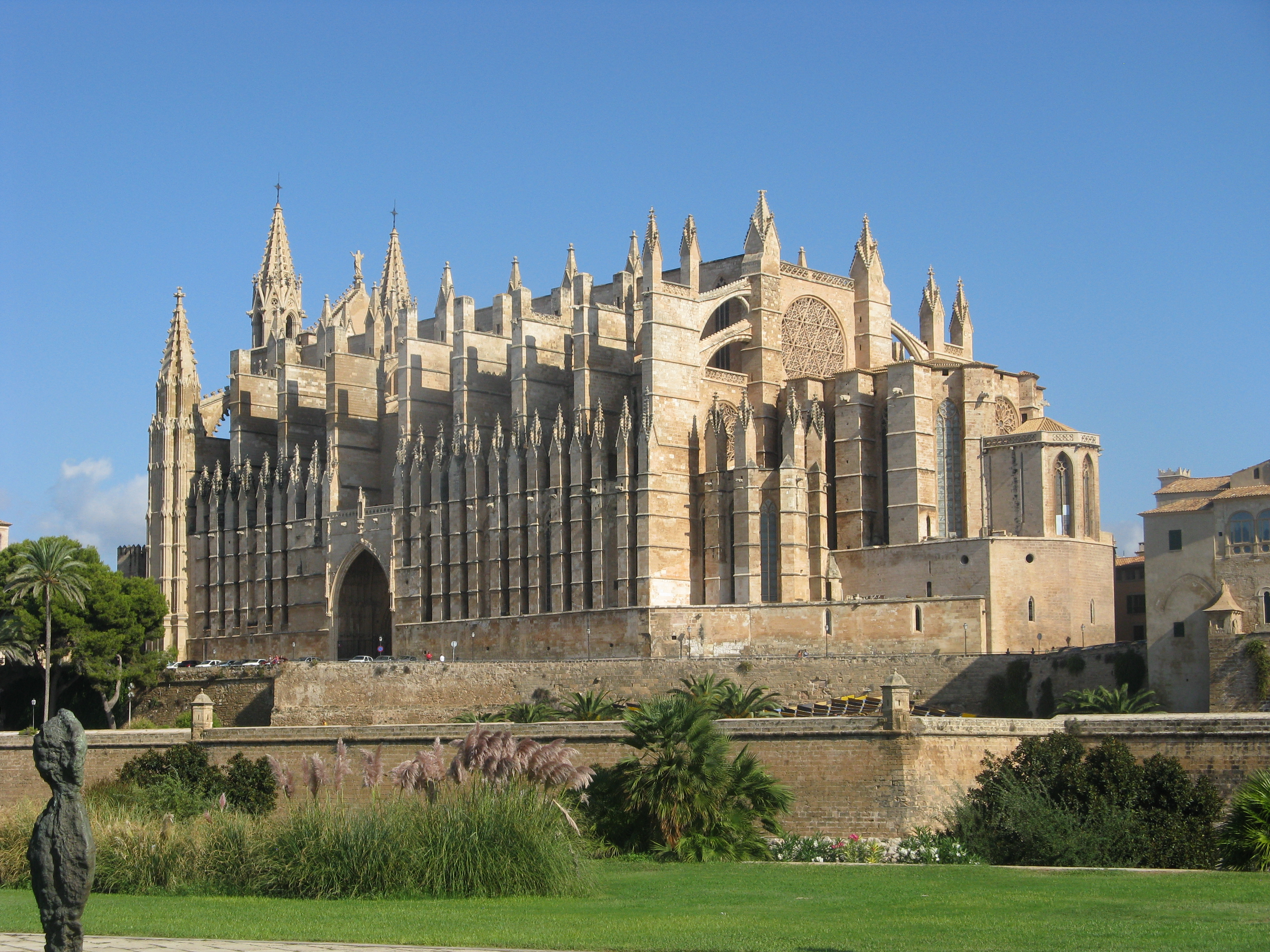 Palma de Mallorca - La Seu